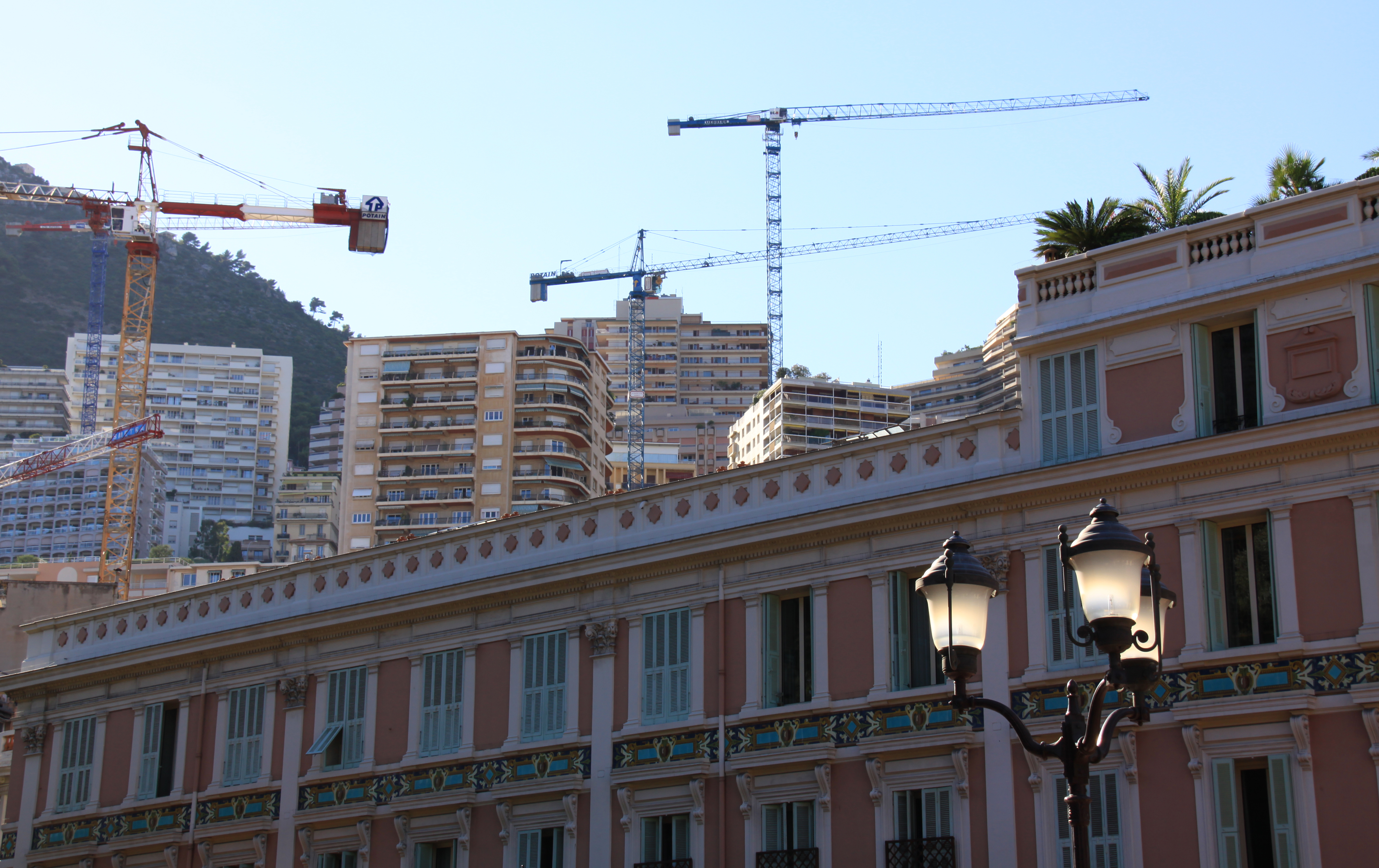 Monaco, Place d'Armes and modern buildings